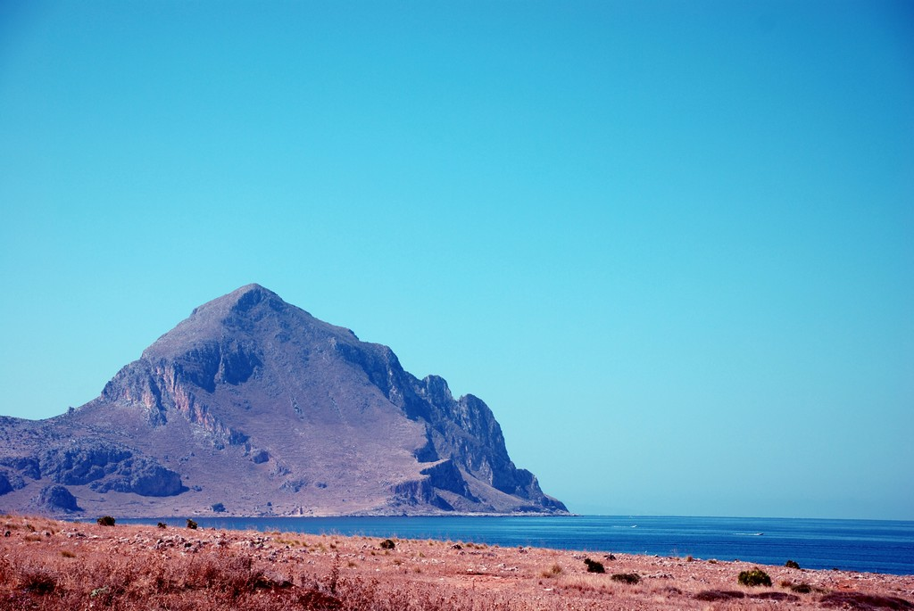 Zoom on Monte Cofano from Makari